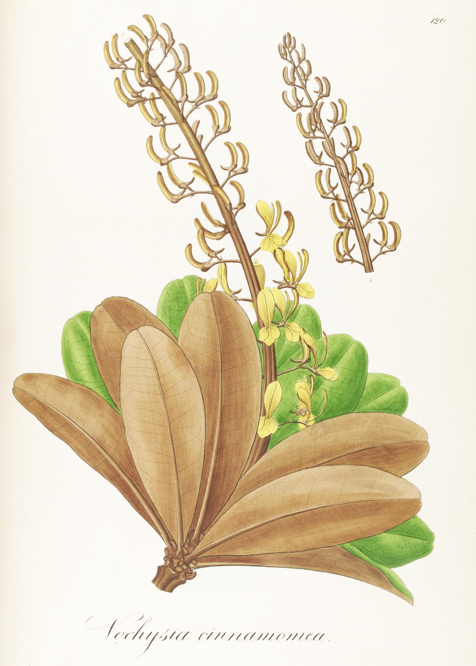 Plate from book